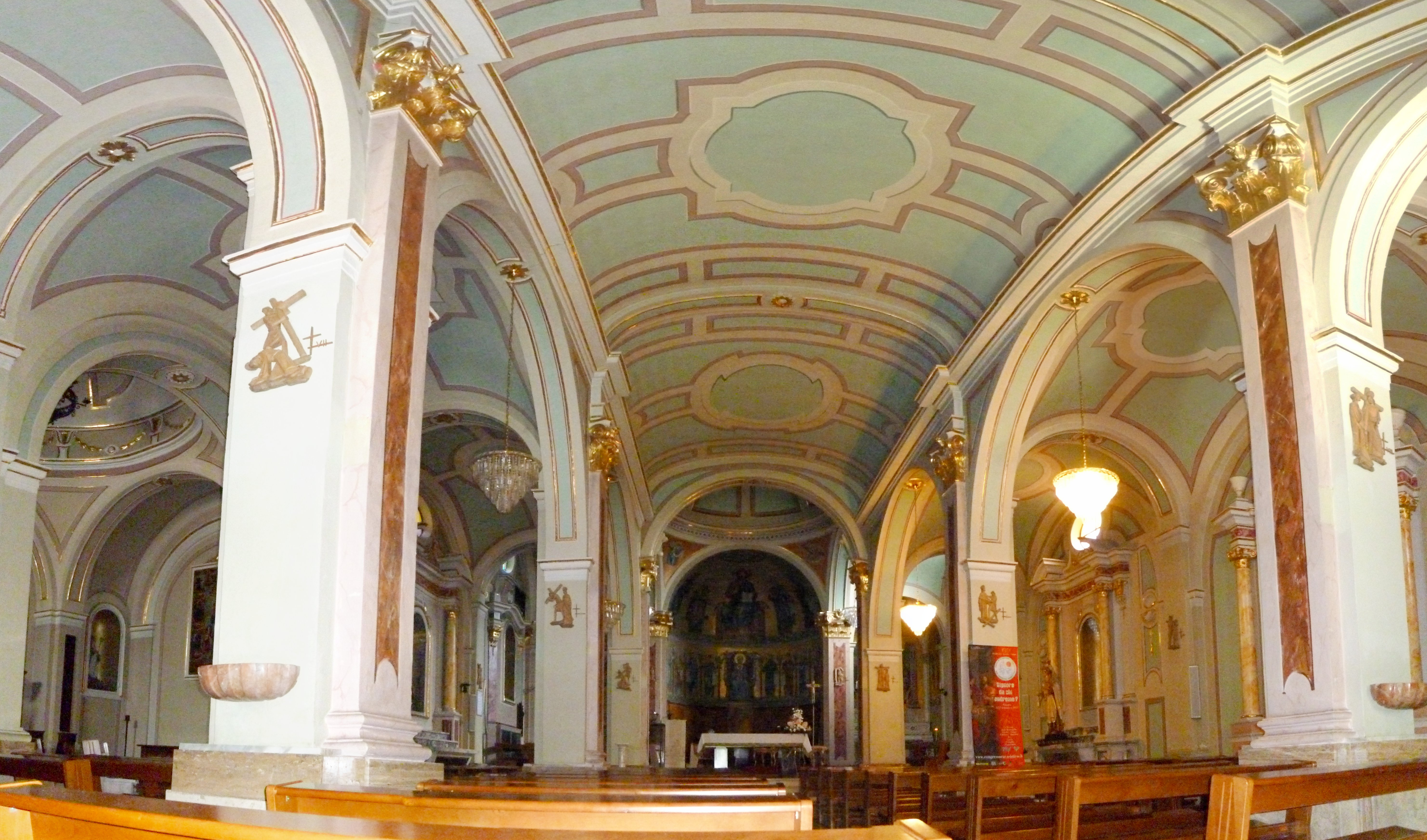 Inside the church of San Remigio, Fara San Martino, province of Chieti, Abruzzo, Italy.